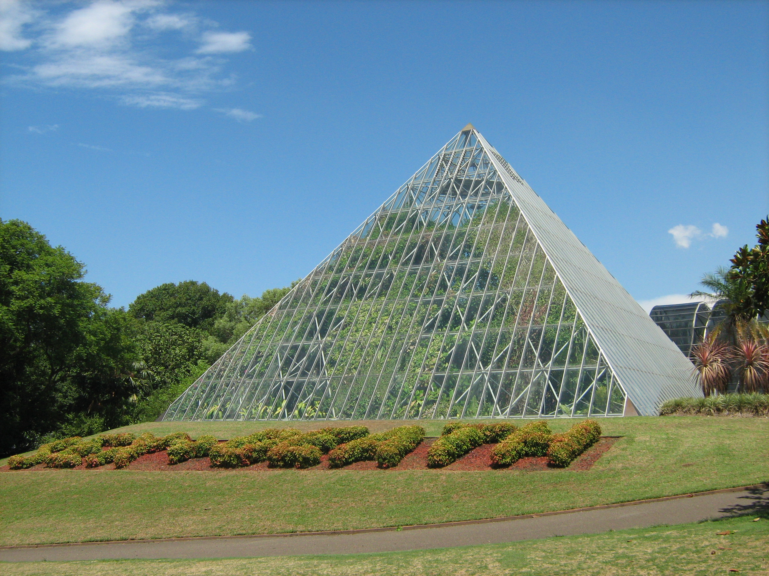 Pyramid Glasshouse, Royal Botanic Gardens, Sydney, Australia